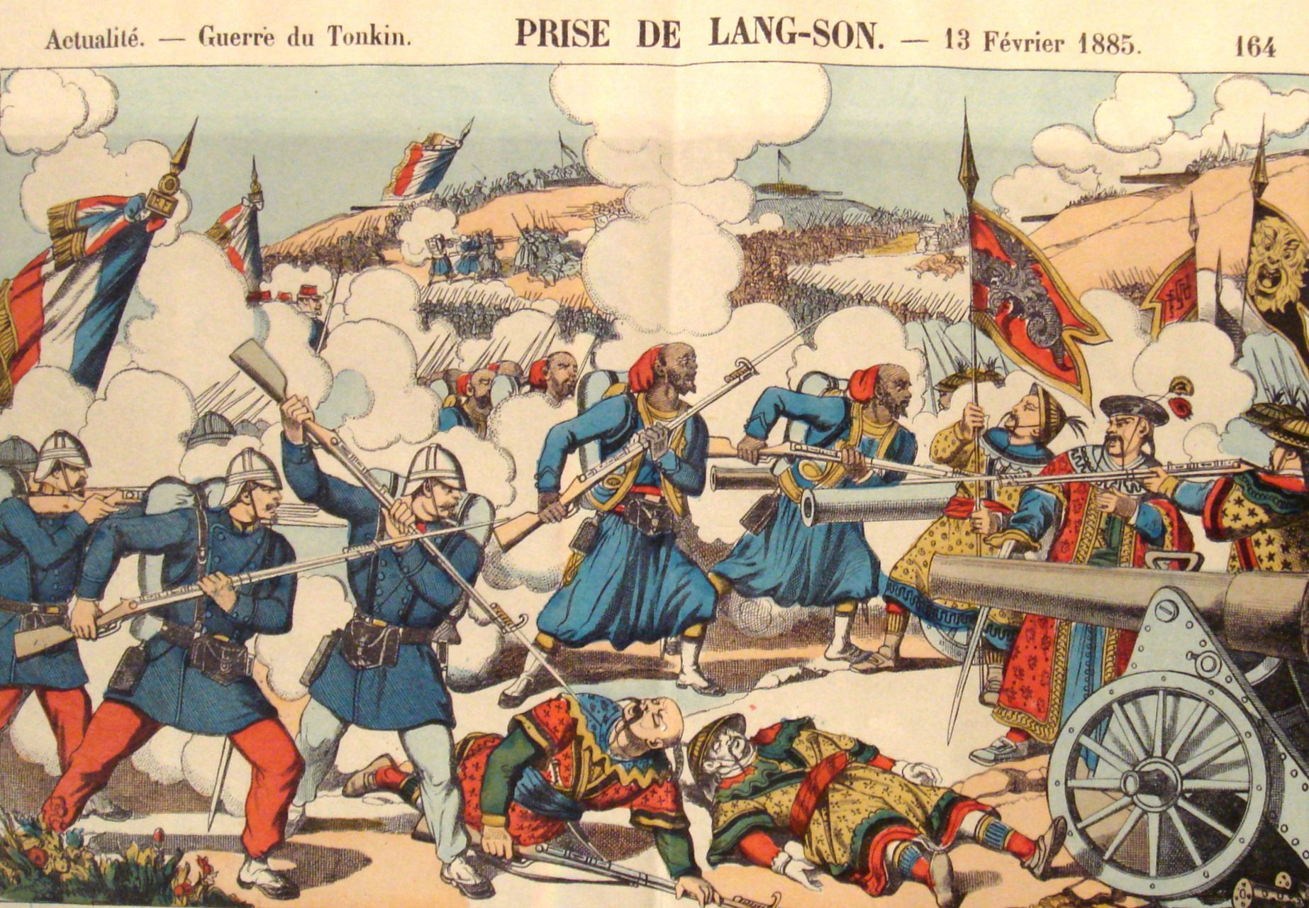 Capture of Lang Son by french Army in february 1885, during the Sino-French War.